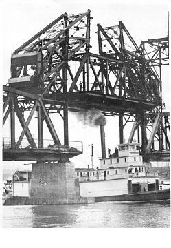 Photographer Unknown Photo taken 1914 Settler's Effects #P983.2.3[1]